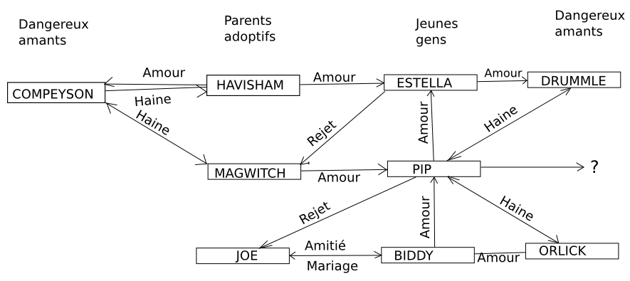 Chart (structure of Great Expectations)